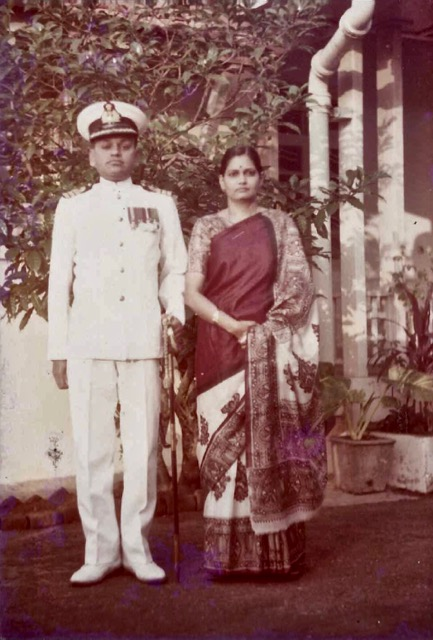 Cdr. G. Sri Rama Rao and Mrs. Ramalakshmi Gandikota